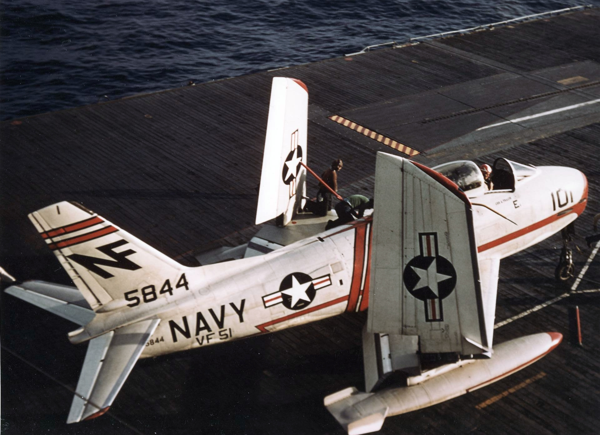 A U.S. Navy North American FJ-3 Fury (BuNo 135844) from Fighter Squadron VF-51 Screaming Eagles on the deck of the Aircraft carrier USS Bon Homme Richard (CVA-31). VF-51 was assigned to Carrier Air Group 5 (CVG-5) aboard the BHR fro a deployment to the Western Pacific from 12 July to 9 December 1957.